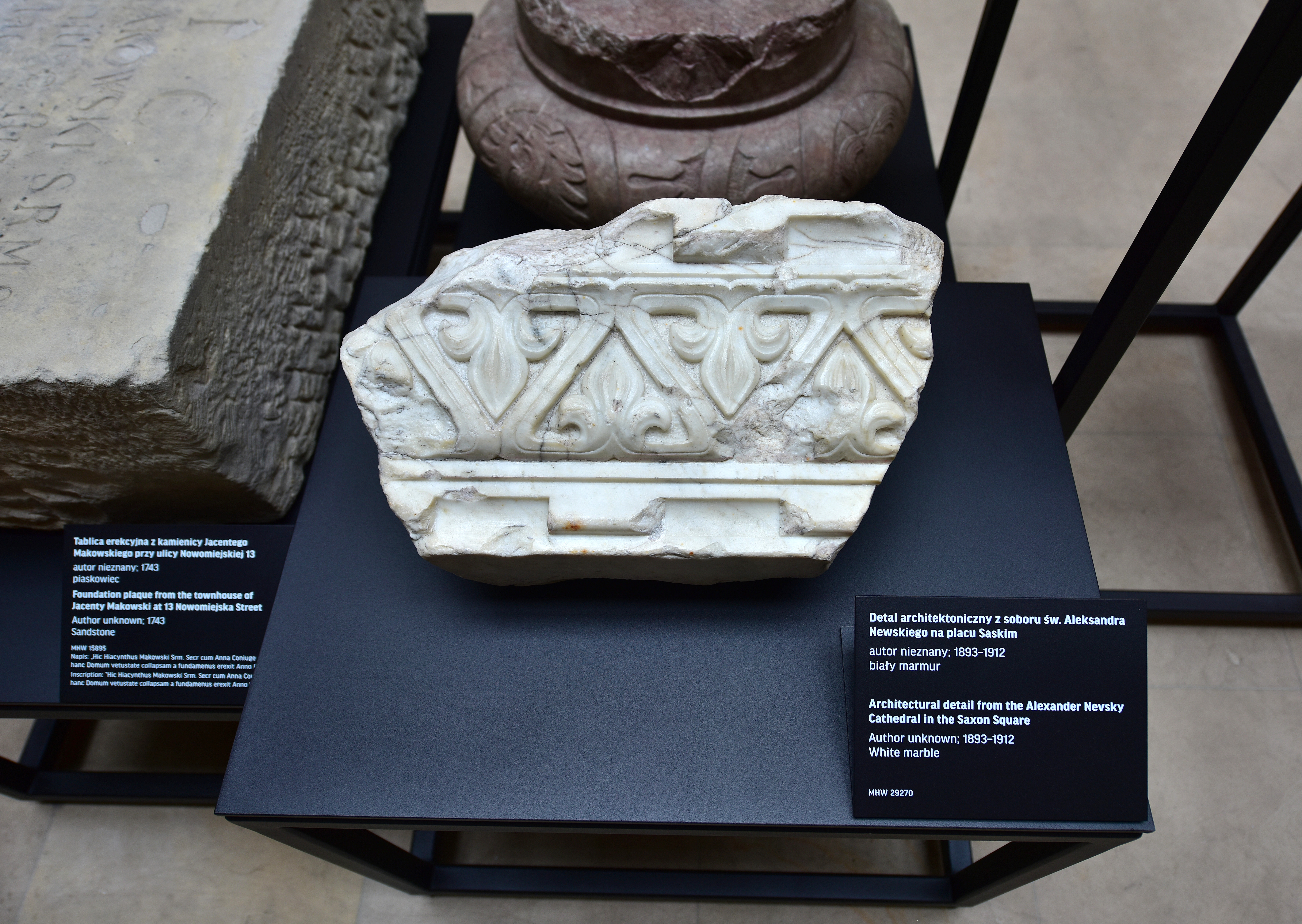 Architectural detail from the Alexander Nevsky Cathedral in the Saxon Square on display in the Museum of Warsaw